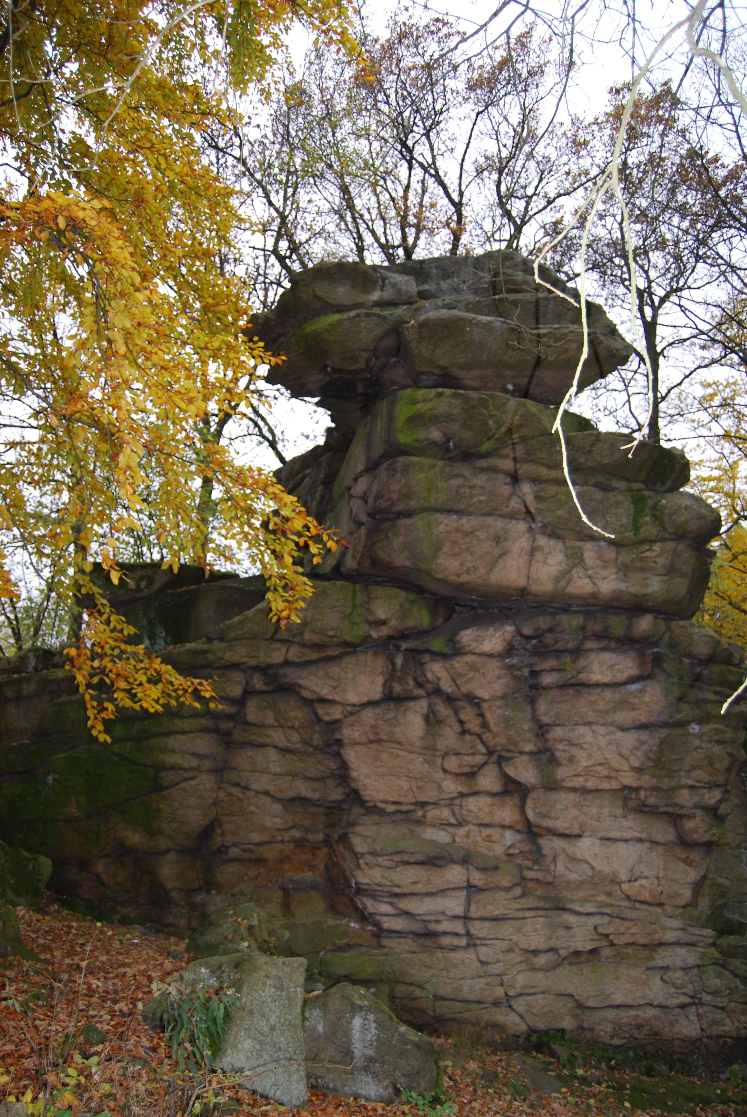 Rock formation called Javorova skala near Cunkov village in Tábor District, Czech Republic